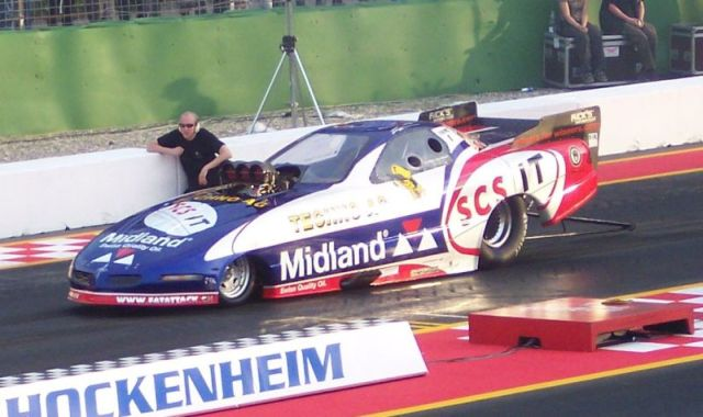 TA/TM Funny Car Dragster at NitrolympX Hockenheim - Driver: Urs Erbacher (CH)